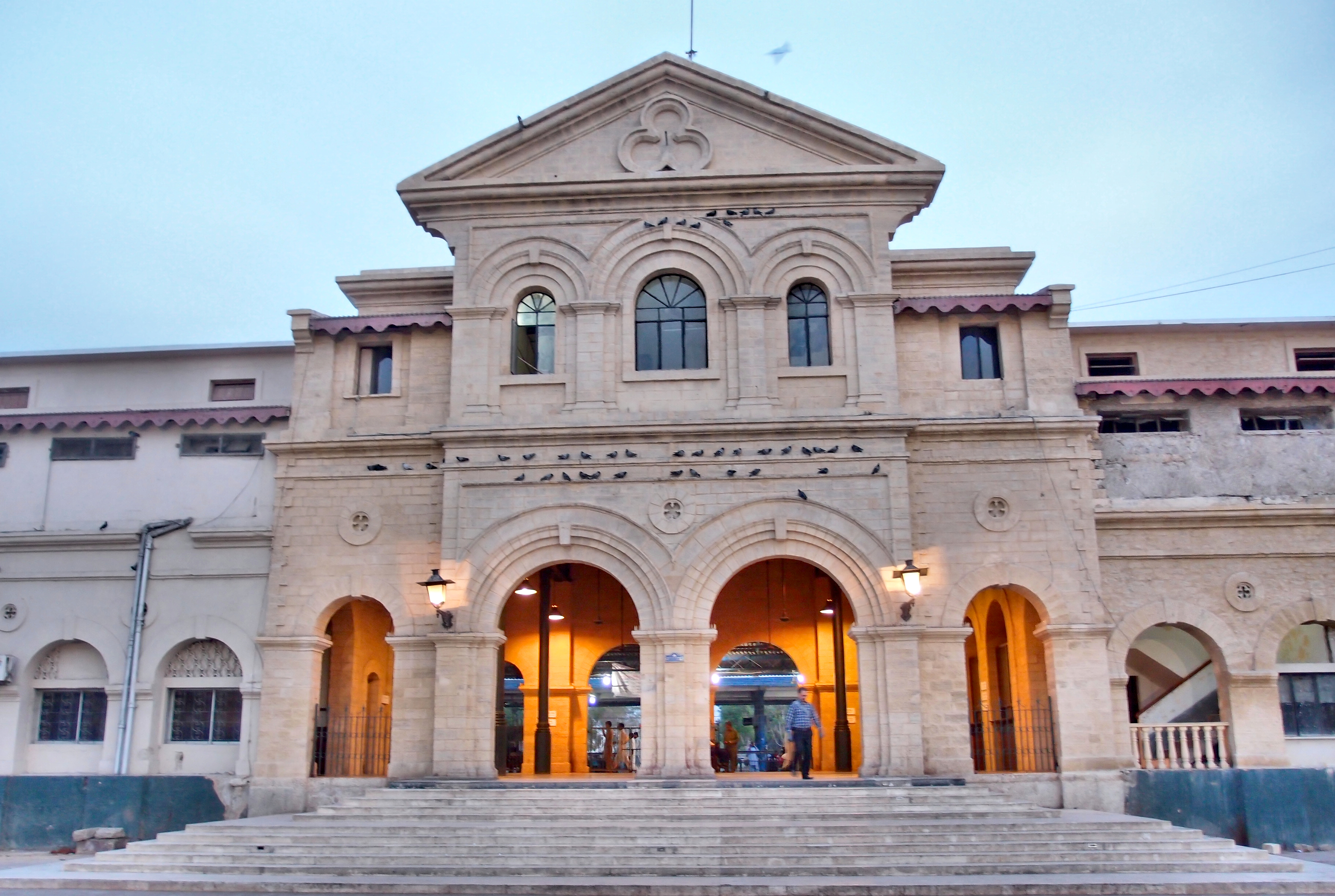 Karachi railway cantt. station facade This is a photo of a monument in Pakistan identified as the PK-S-PH-166